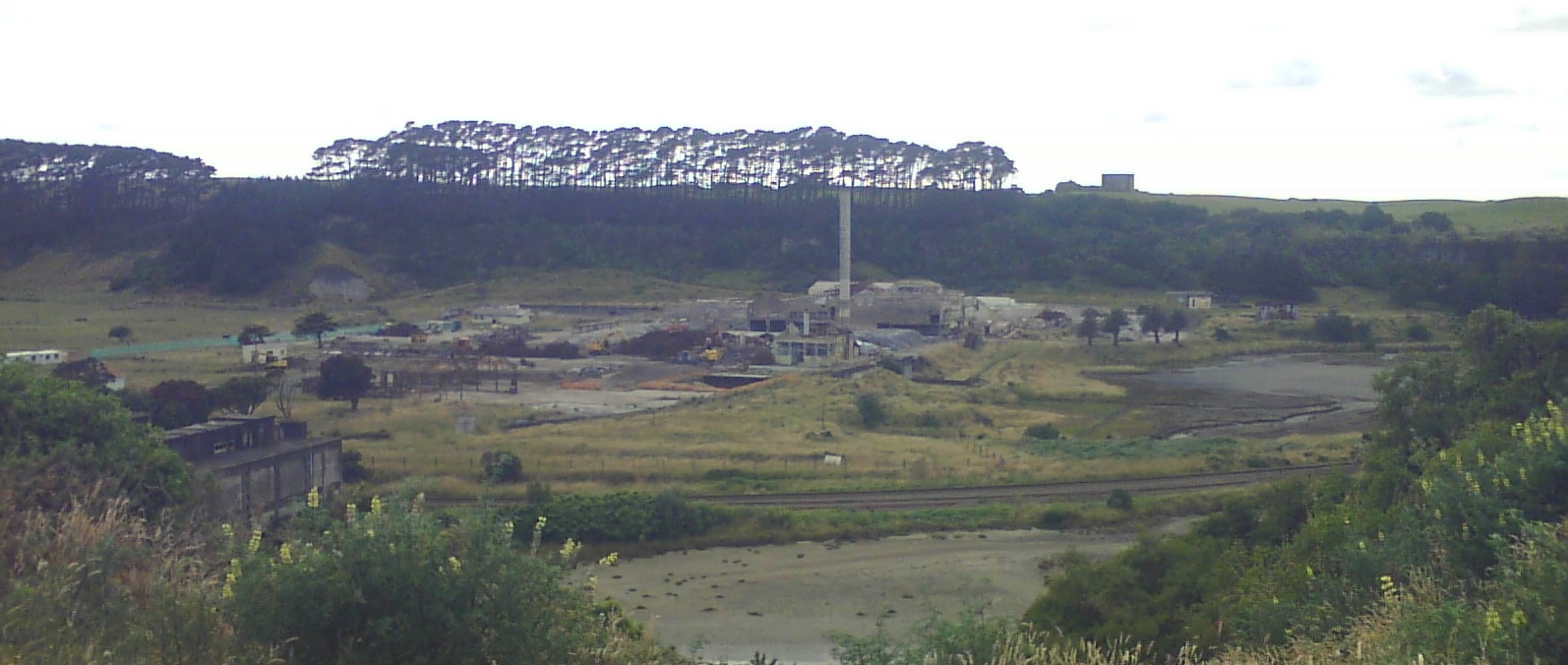 Patea Freezing Works site during demolition 2010. Photo taken from the grounds of Patea Area School.